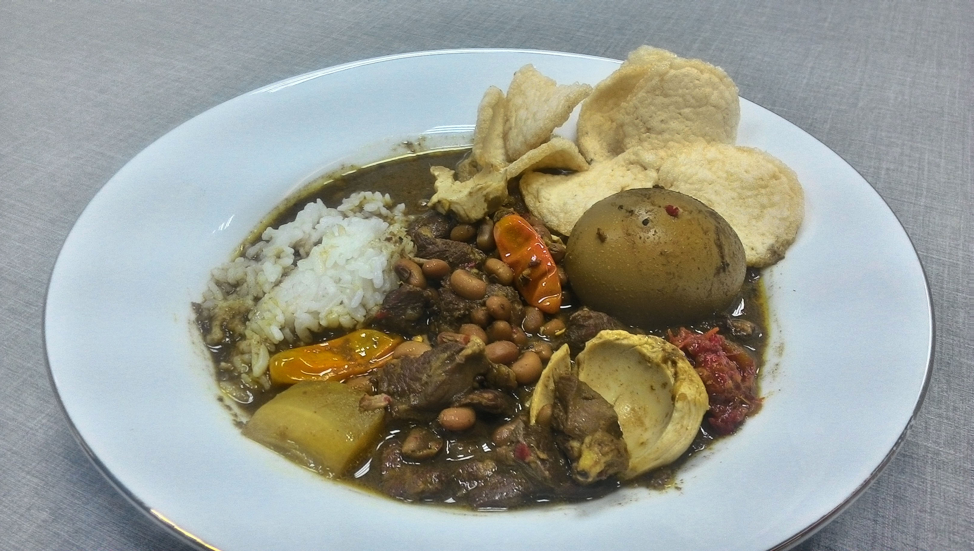 Nasi brongkos or brongkos with rice. Brongkos is Javanese spicy meat and beans stew, a specialty of Yogyakarta, Indonesia. Here the brongkos stew is served with egg and prawn cracker.